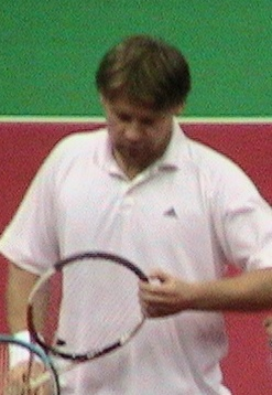 Vladimir Voltchkov at 2006 Kremlin Cup